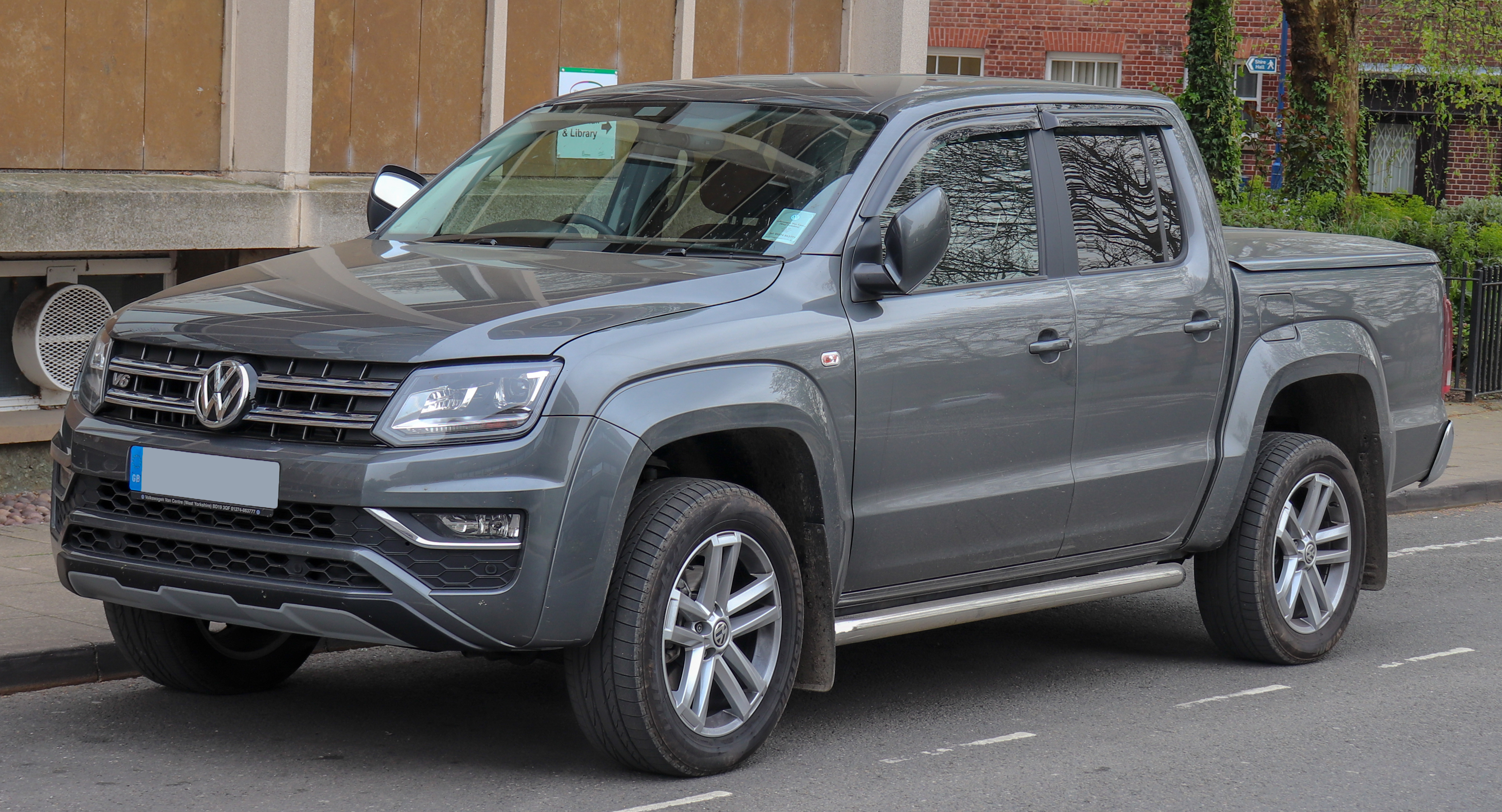 2019 Volkswagen Amarok Highline V6 TDi 4MOTION 3.0 Front Taken in Warwick